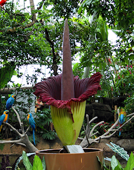 Corpse Flower in bloom at Moody Gardens in Galveston, Texas, June 14, 2012